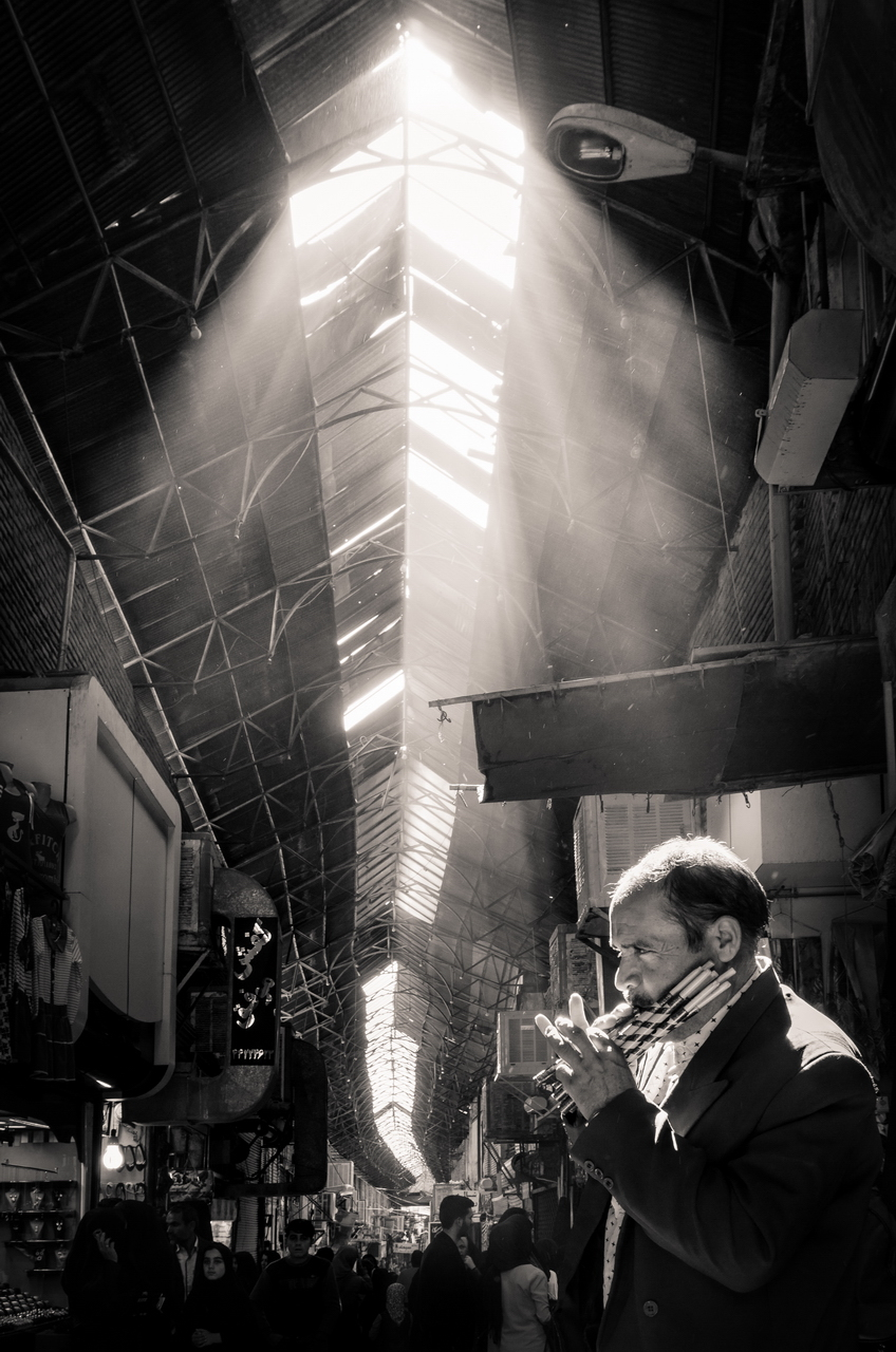 Abasali, the musician who playing reed in historical market of Sabzevar